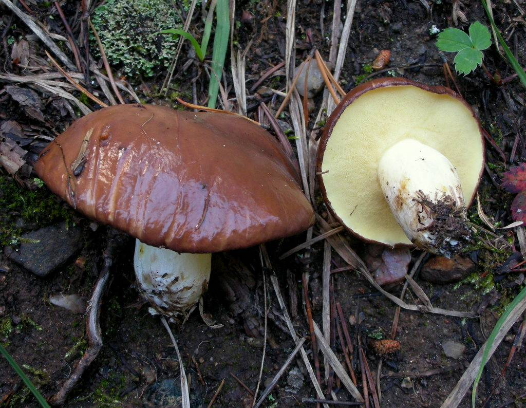 Fruit bodies of the bolete fungus Suillus brevipes (Peck) Kuntze. Specimens photographed in Fraser Experimental Forest, Grand Co., Colorado, USA.